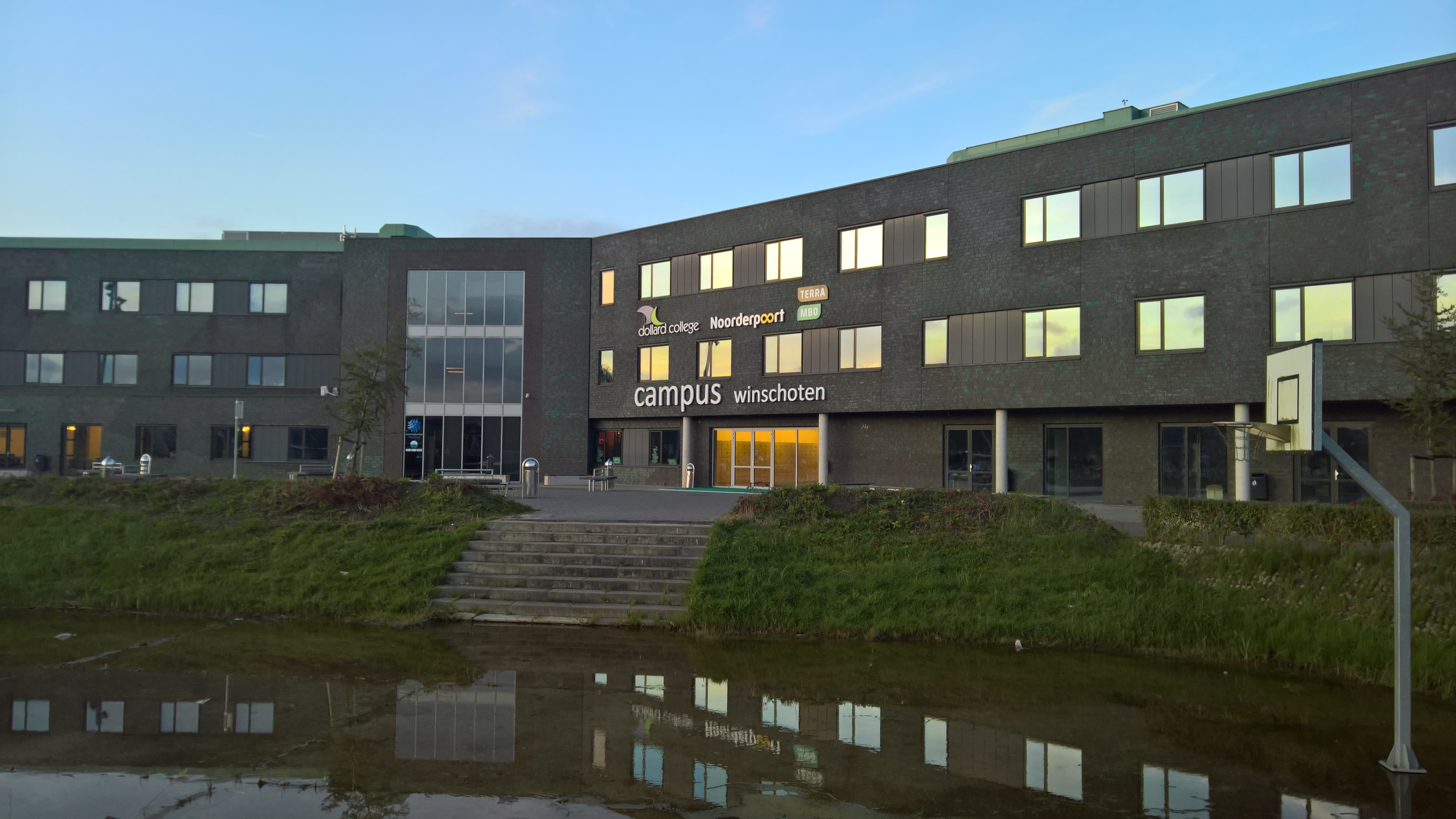 Campus Winschoten is a specialised vocational school 🏫 in Winschoten, Groningen that offers various types of secondary and vocational education.